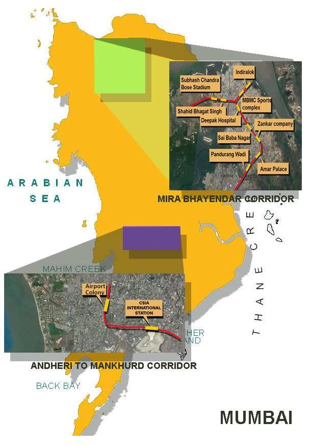 Metro line 9 map of Interchange